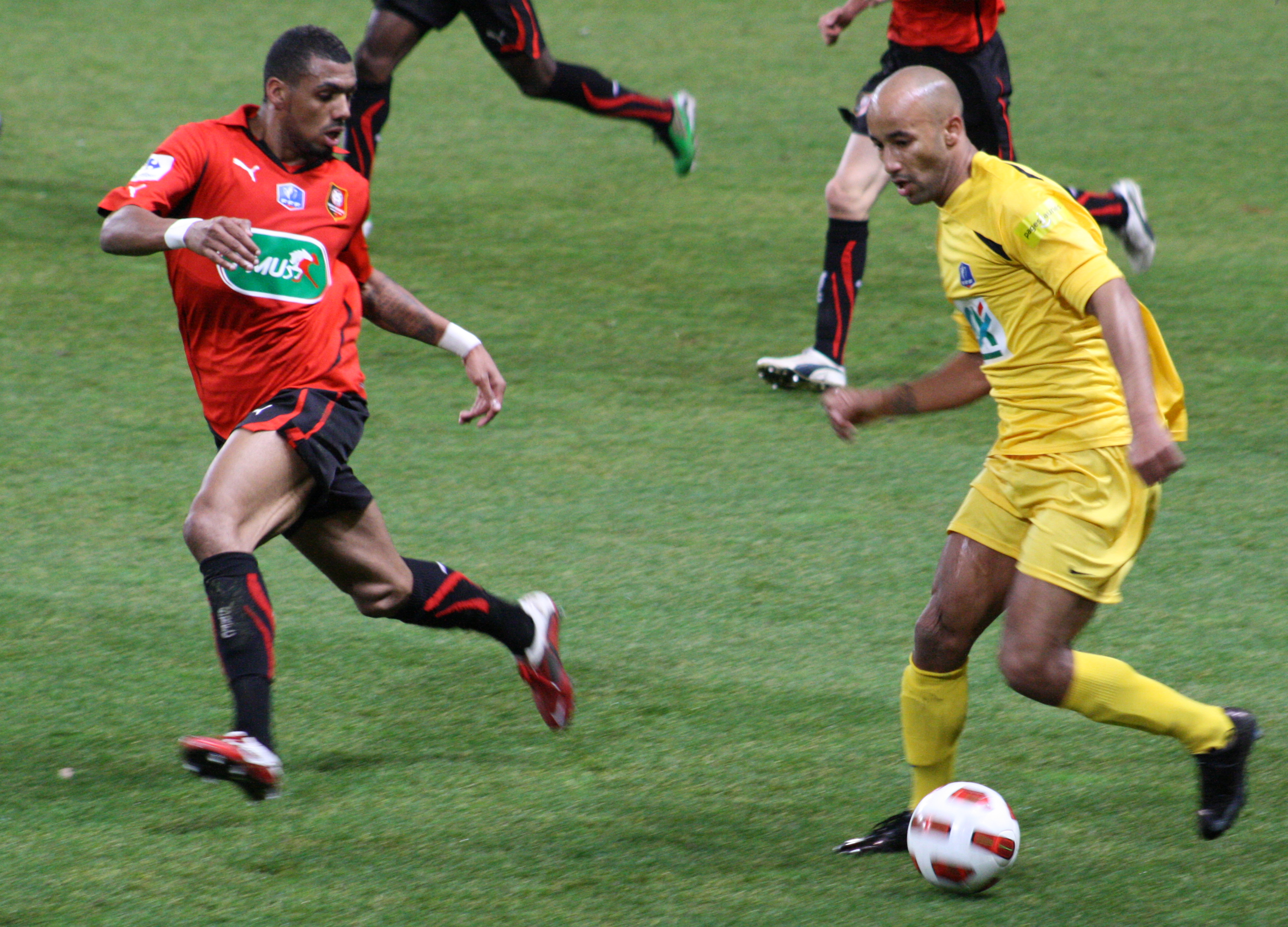 Yann M'Vila's photo (on left), football player, with Rennes' jersey in 2011.